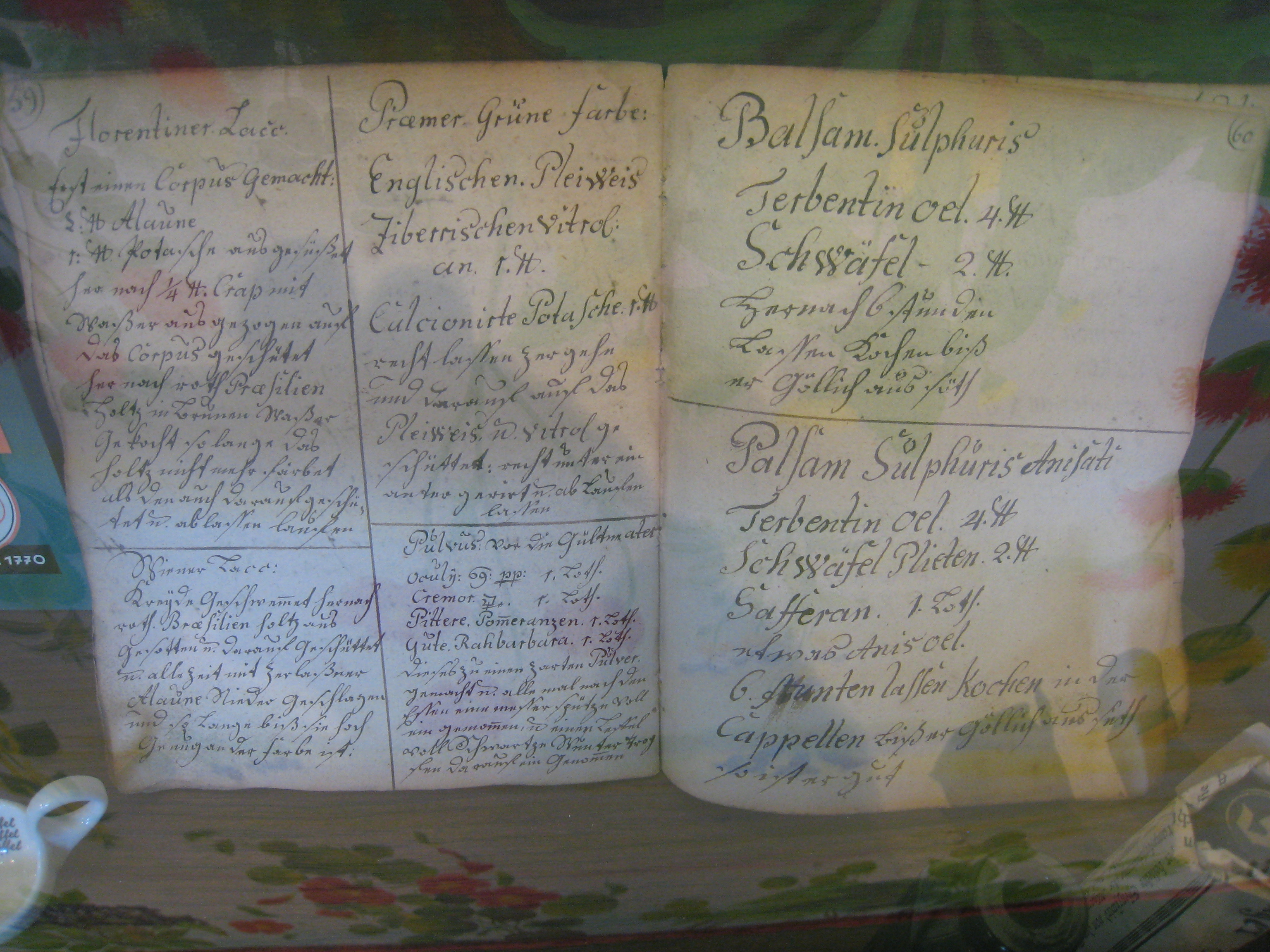 Thüringer Wald-Kreativ-Museum Großbreitenbach